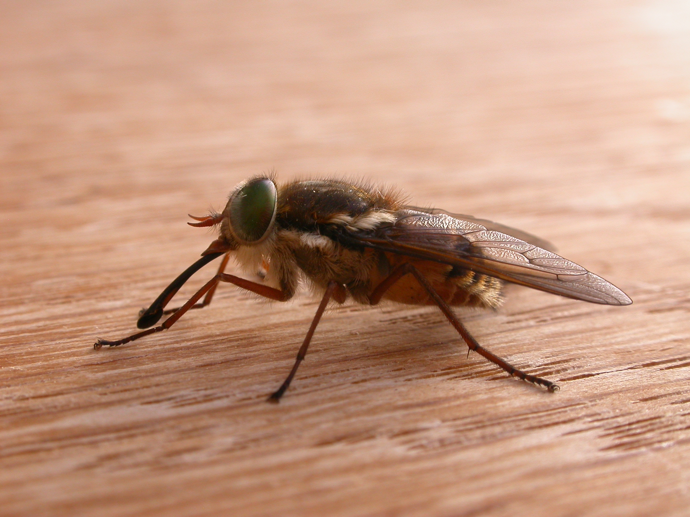 Scaptia maculiventris Westwood, 1835, Merimbula, NSW, 7 November 2010